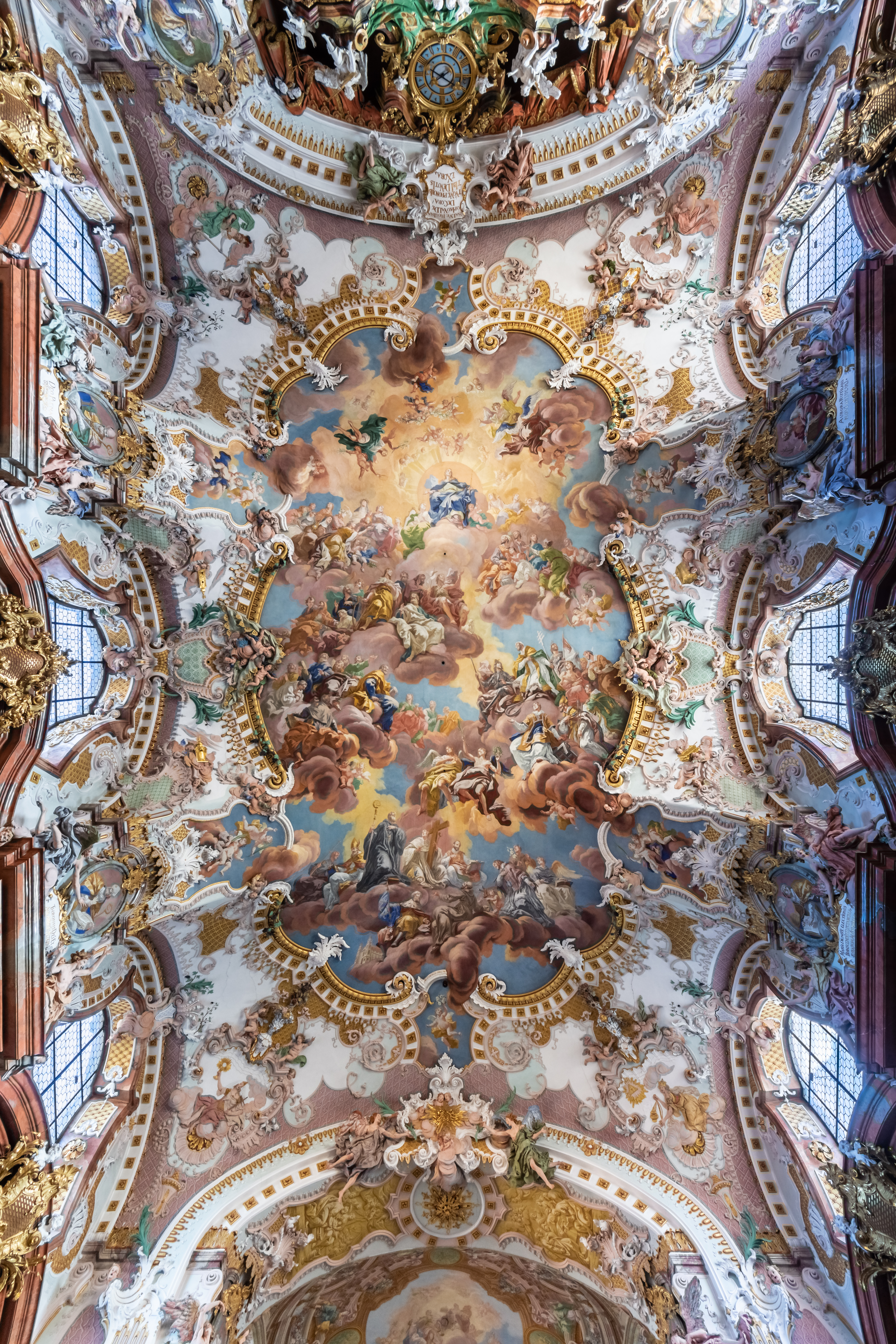 Ceiling fresco in the nave of Wilhering Abbey Church (Upper Austria) by Bartolomeo Altomonte: Assumption of Mary (1741)